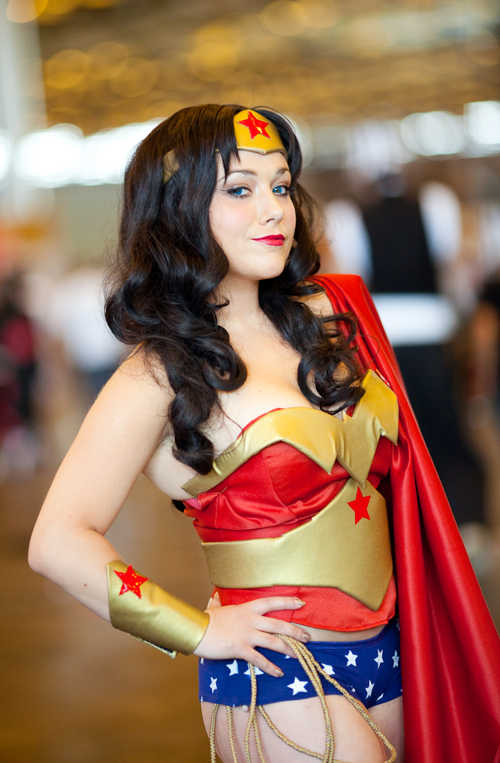 Japan Expo 2010 - Wonder Woman Cosplay